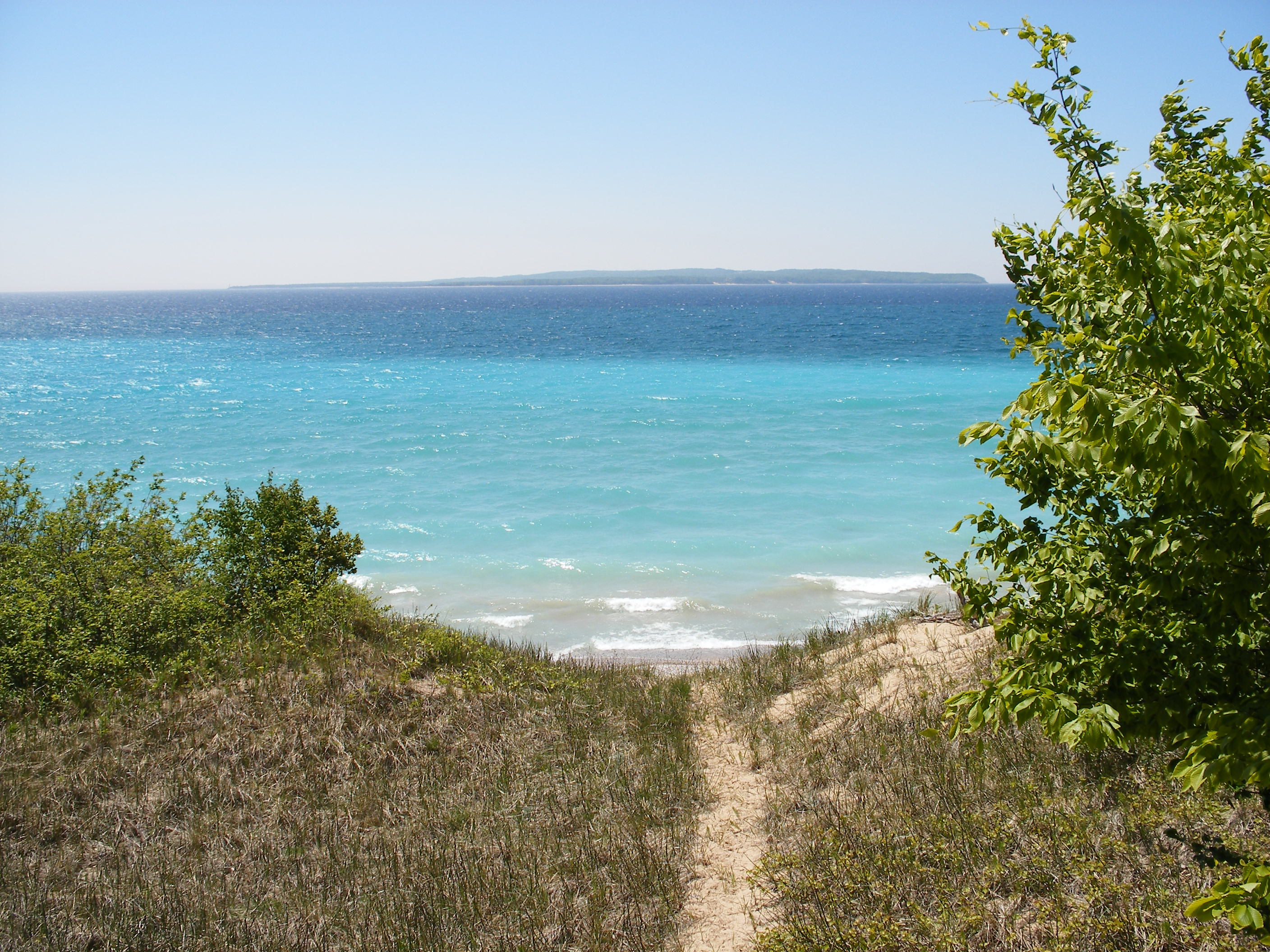 This picture is of North Manitou Island looking south. It was taken by Wade Renando while backpacking on the Island. South Manitou Island is visible in the distance. North Manitou Island is part of the Sleeping Bear Dunes National Lake Shore. The island is located in northern Lake Michigan.